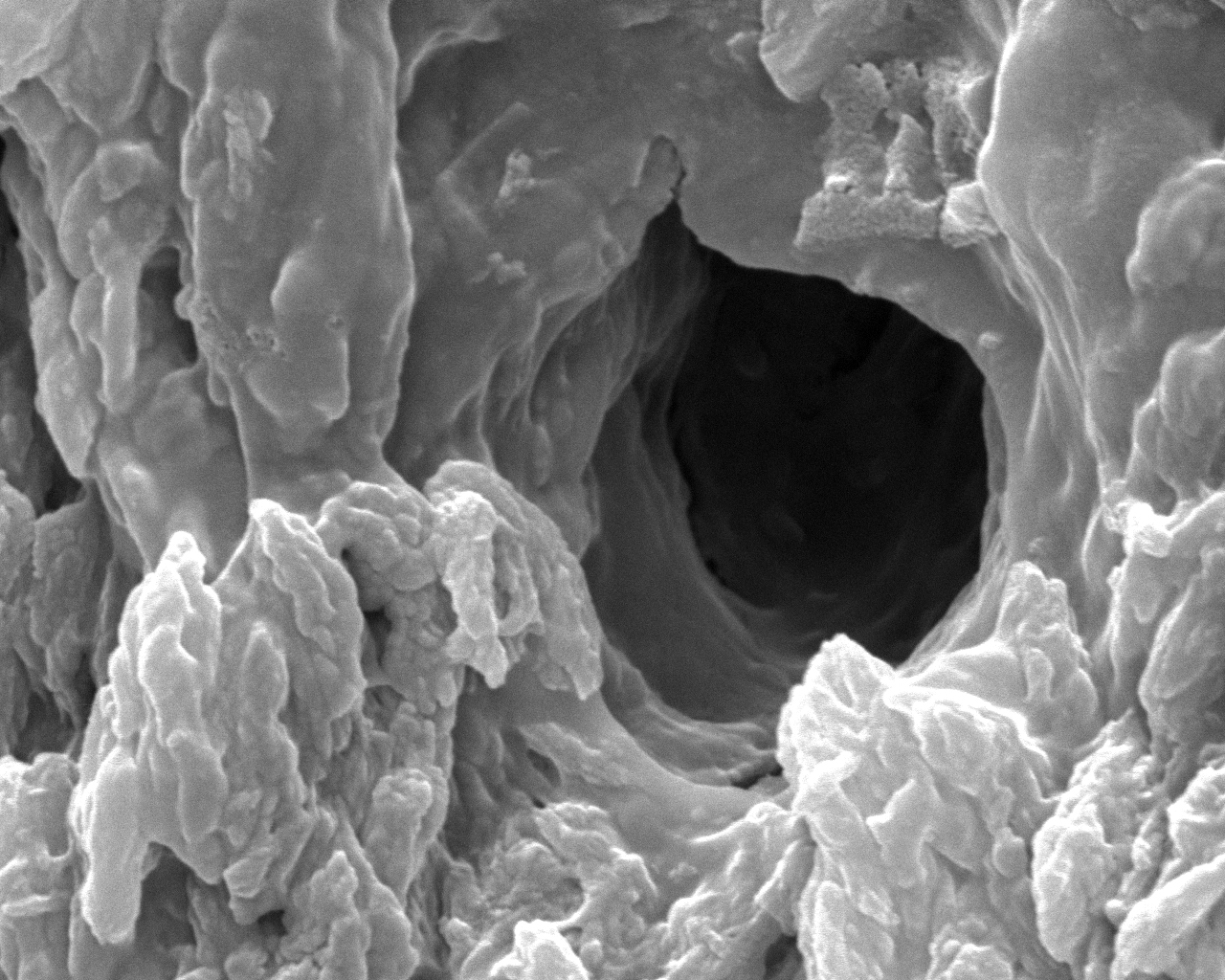 A close-up of a tubule reveals a cave-like opening ultimately leading to inner nerves along the tusk core. (Magnified 10,000 times)